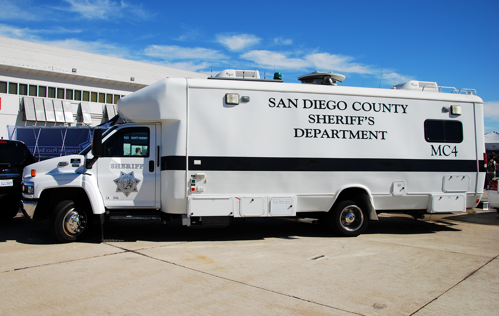 Marine Corps Air Station Miramar (MCAS Miramar) (IATA: NKX, ICAO: KNKX, FAA LID: NKX) Photo: Tomás Del Coro Miramar Air Show 2014 October 4, 2014